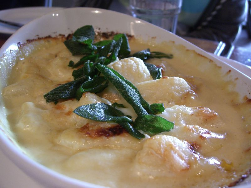 Baked Gnocchi with Taleggio Cheese and Crispy Sage - Il Fornaio (entree/main) AUD16/22 Oozy cheesy goodness smothering tender discs of gnocchi. The Taleggio was much strong than I expected, and quite a flavour hit! I suspect that there was some cream in the sauce to temper the tang. Il Fornaio Kilda